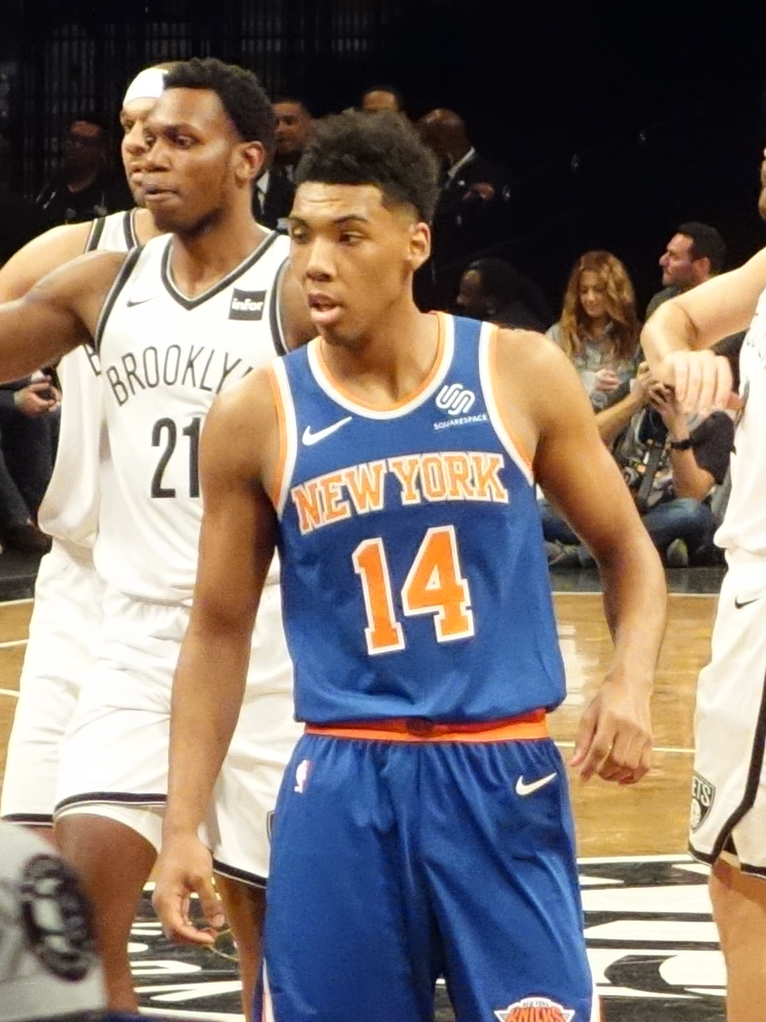 New York Knicks rookie guard Allonzo Trier during the first quarter of the NBA Preseason game between the Brooklyn Nets and the New York Knicks at the Barclays Center on October 3, 2018. Trier attended the University of Arizona and went undrafted in this year's NBA Draft. He is on a two-way contract with the NBA Knicks and the G-League Westchester Knicks.